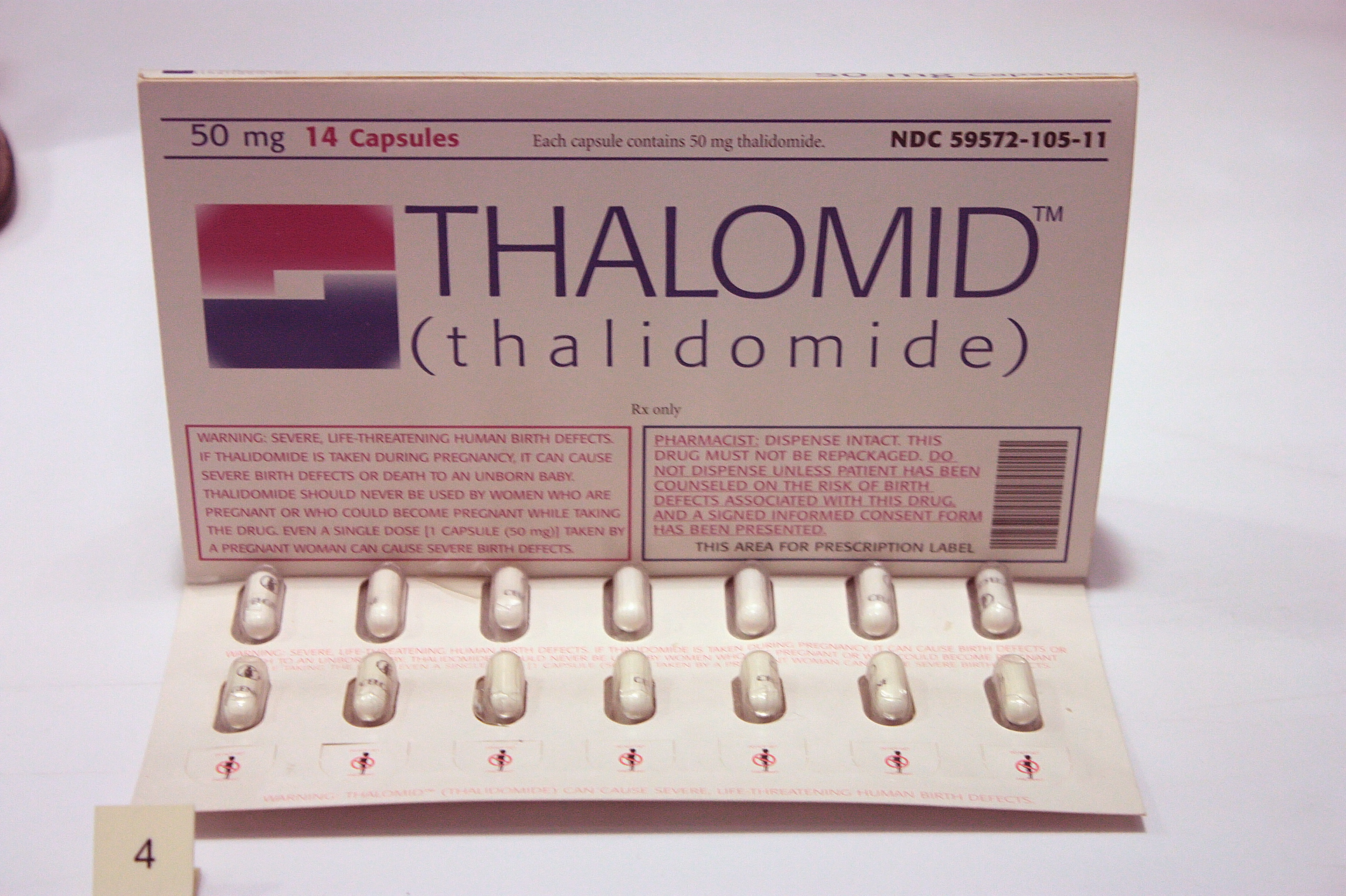 Pack of Thalidomide tablets circa 2006 or later